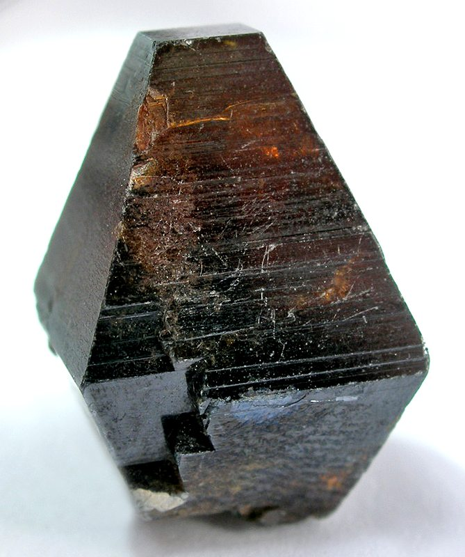 Anatase Locality: Kharan, Balochistan (Baluchistan), Pakistan (Locality at ) Size: thumbnail, 2.0 x 1.3 x 1.2 cm Anatase This is one of the largest fine anatase crystals rcovered from Zagi, to our knowledge. I have seen only 2 bigger, in good quality. Because of the red color and GEMMINESS to the uter layers here, these are absolutely distinct from Norwegian material from Valtres. This one, for size and overall color and translucency, is the best I have ever had to sell, myself. Its a phenomenal anatase for any locality, though it happens to be particularly significant from this one. If this were fro mNorway, it would cos tmore, and yet here is the more rare and novel locale?!